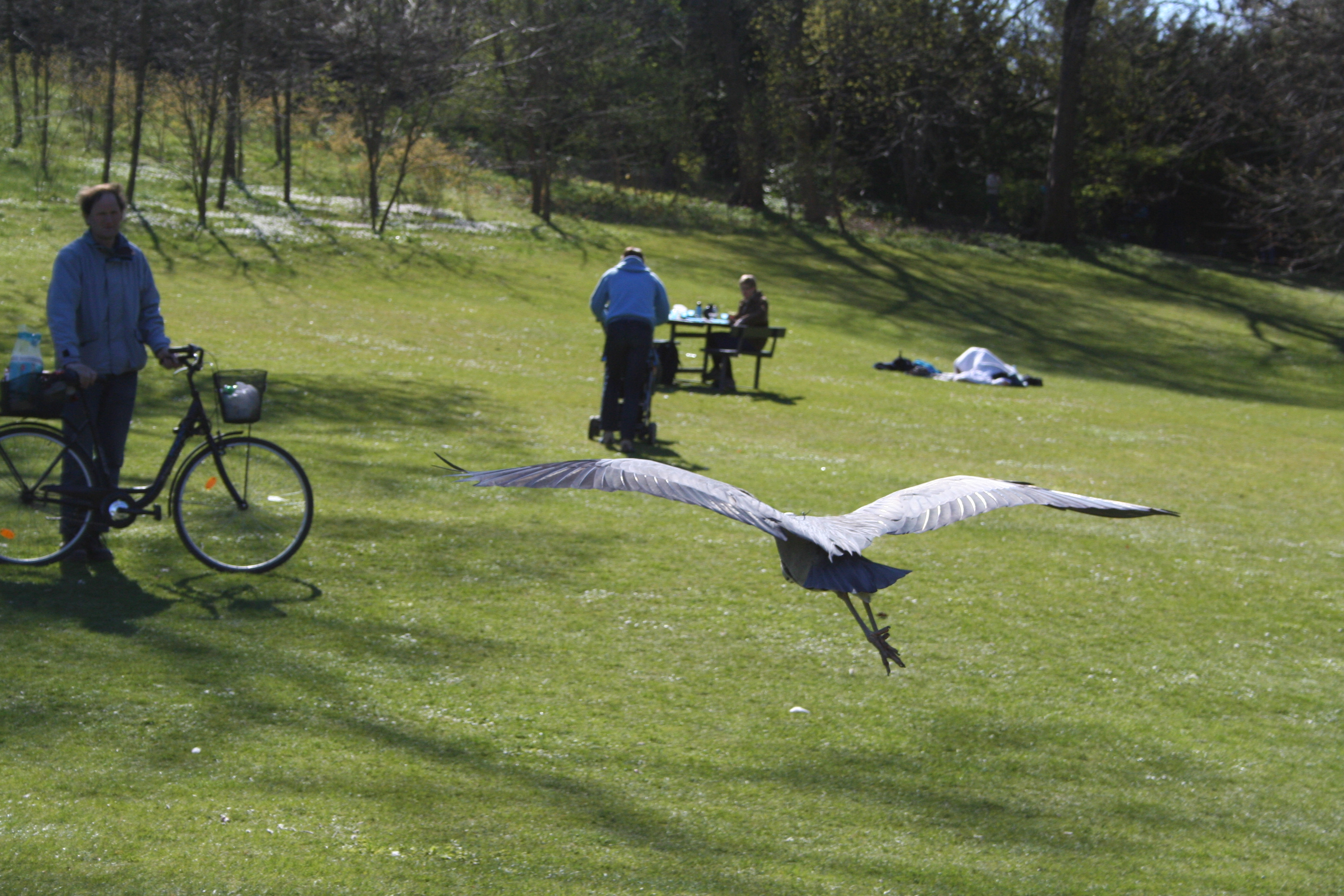 Gray heron at Frederiksberg Park (Copenaghen, Denmark)